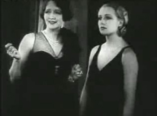 Screenshot of Hedda Hopper and Carole Lombard from the film The Racketeer